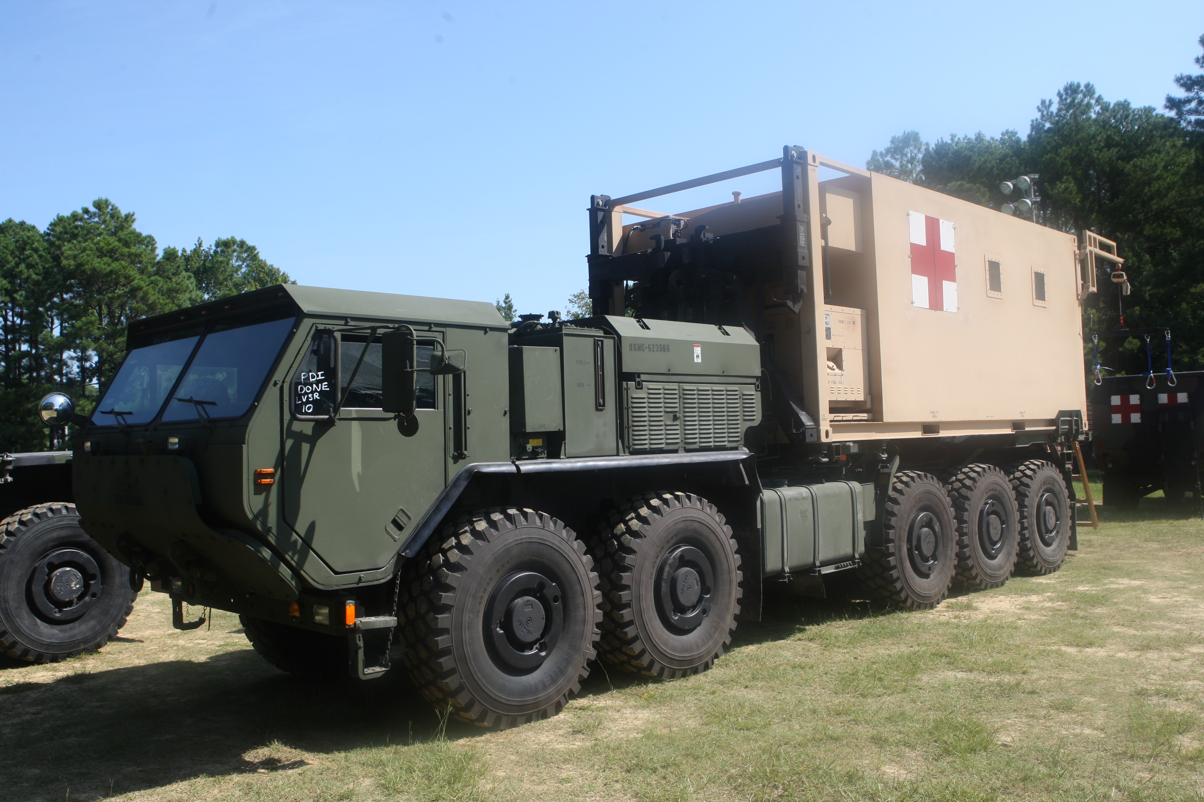 The Mobile Trauma Bay, created by Cmdr. James L. Hancock, director of medical services, Camp Lejeune Naval Hospital, stands completed and ready to ship to Afghanistan for combat testing, August 27. From the time it was proposed to the time it was completed, 914 concept drawings in four months resulted in what was unveiled today.